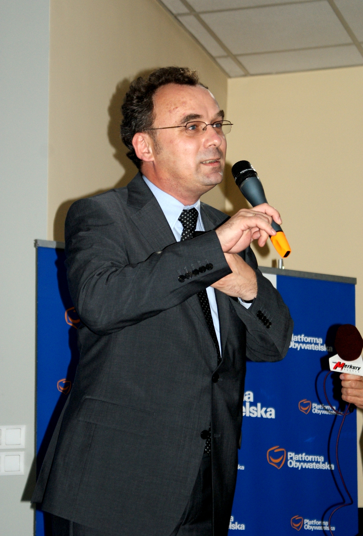 Polish presidential election 2010. Election's Results Night, Poznań. Filip Kaczmarek, deputowany do Parlamentu Europejskiego